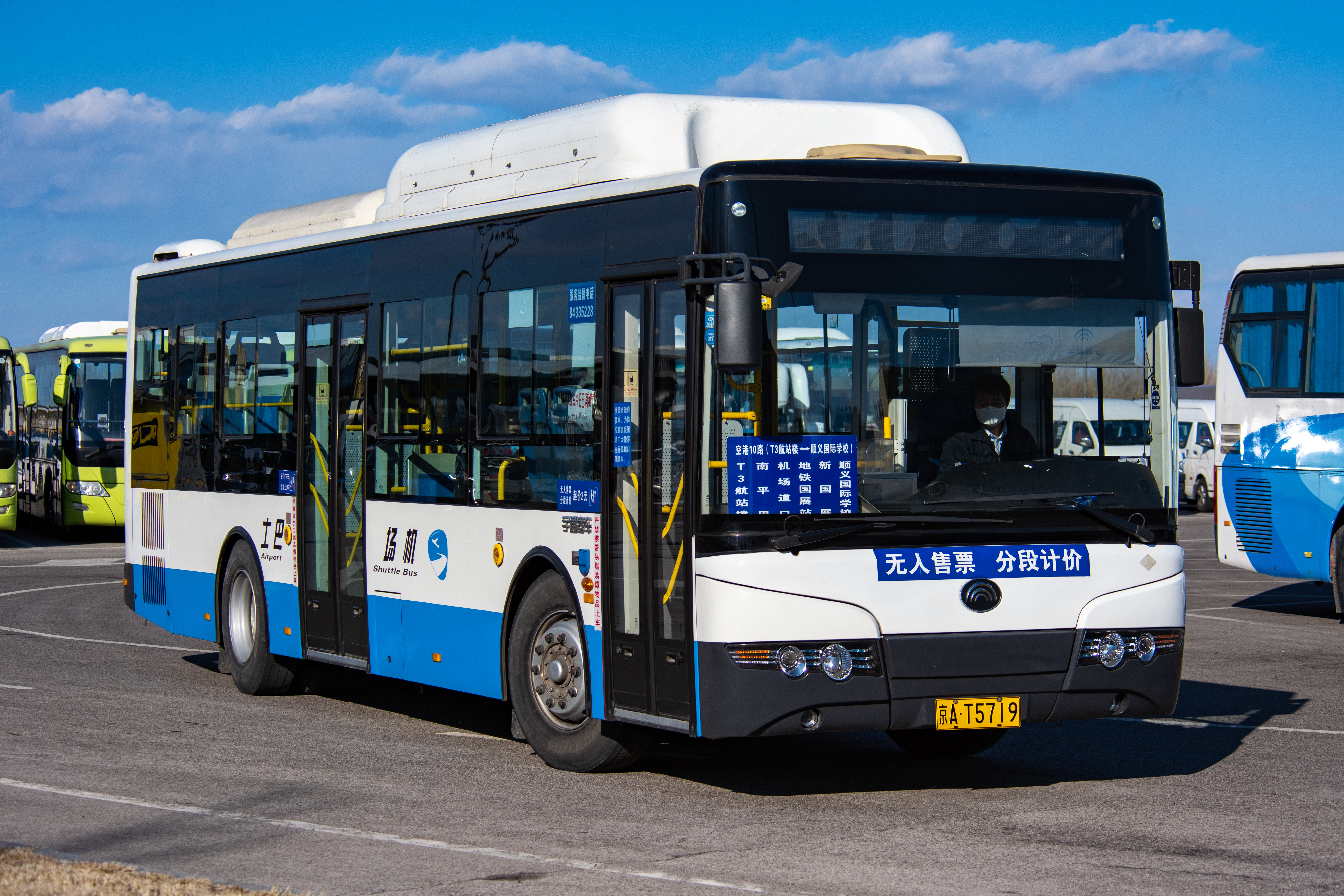 Airport Shuttle 10 to Shunyi International School, using ZK6105HNG2.